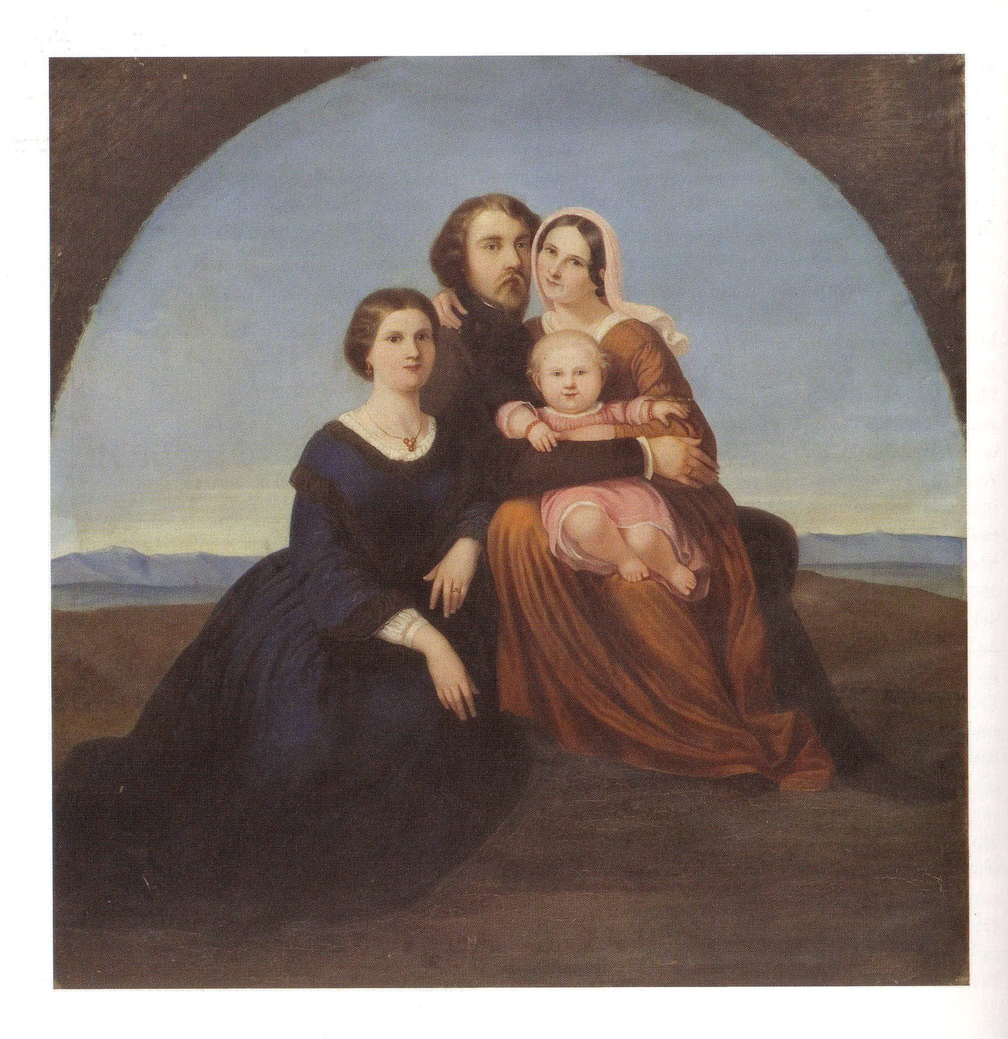 Auguste Engelhard von Nathusius, painting